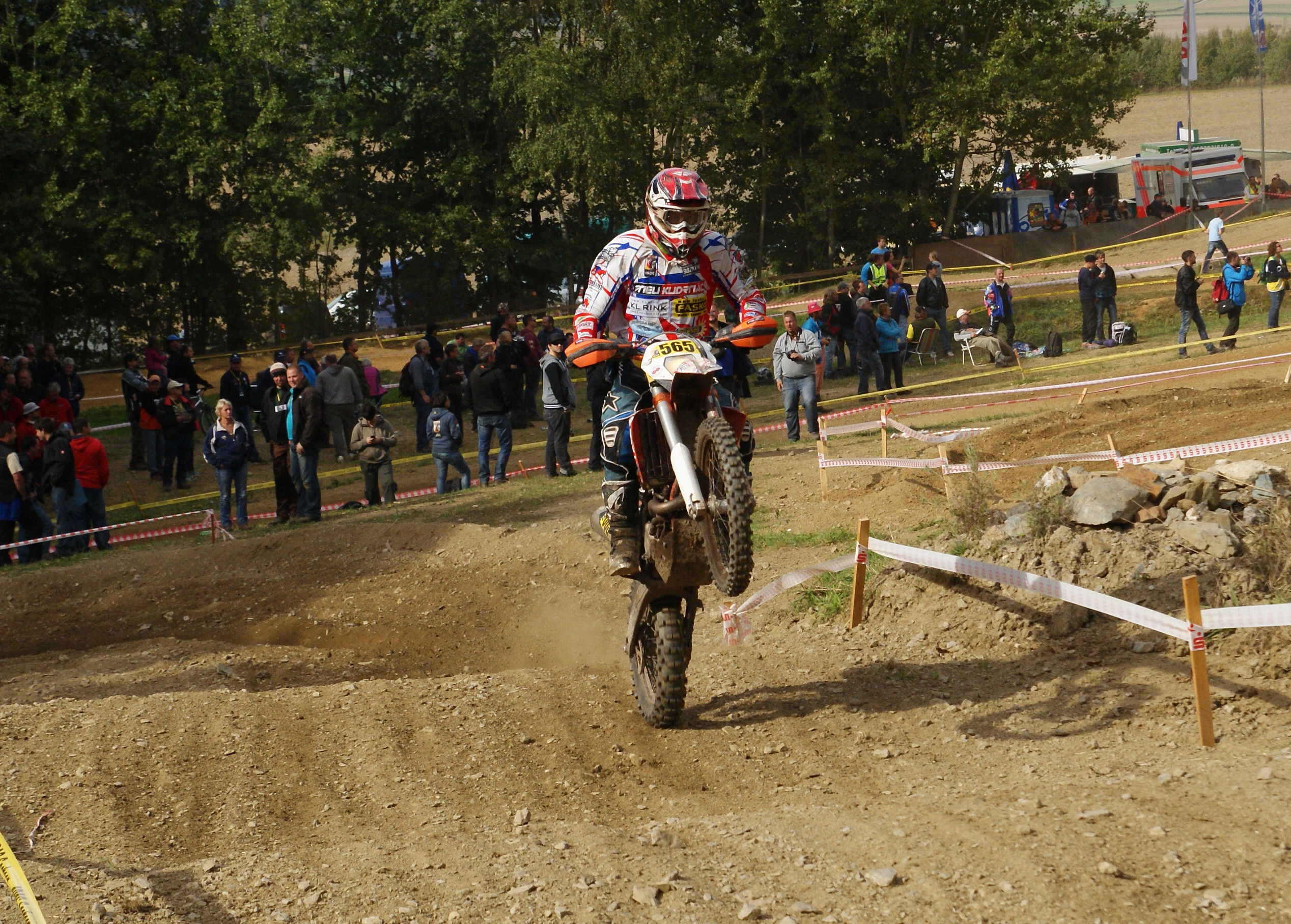 The making of this document was supported by the Community-Budget of Wikimedia Germany. 87. ISDE Saxony Red Bull SIX DAYS ST 3 Erzgebirgssparkassentest Zwönitz Jan Kudrnac